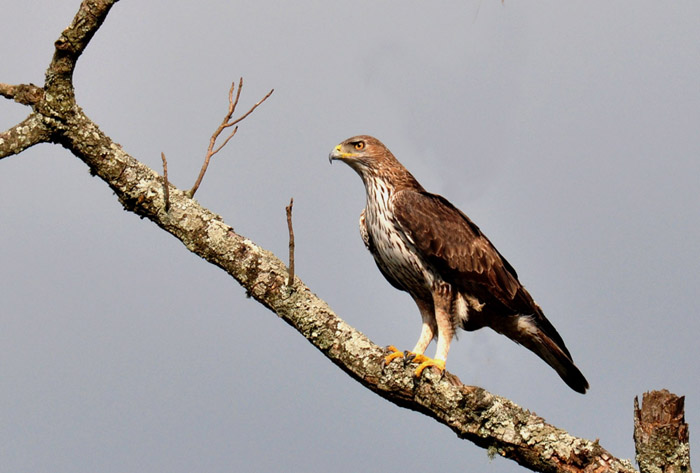 Was shot in Biligiri Rangaswamy Temple Tiger Reserve, Karnataka, India. A small twig was cloned off the bird.